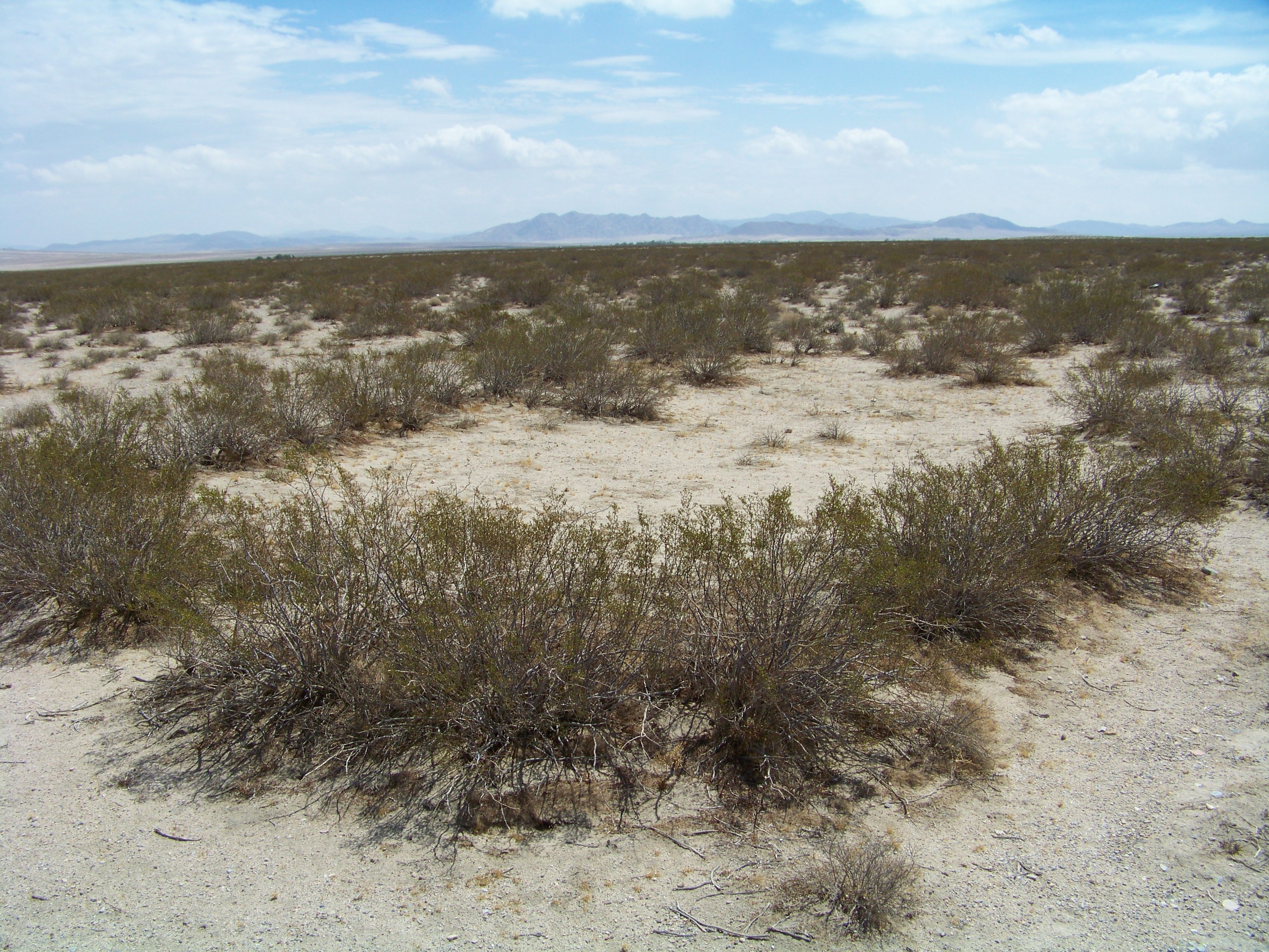 Photograph of a large creosote bush ring known as "King Clone" that is located in Lucerne Valley, California.